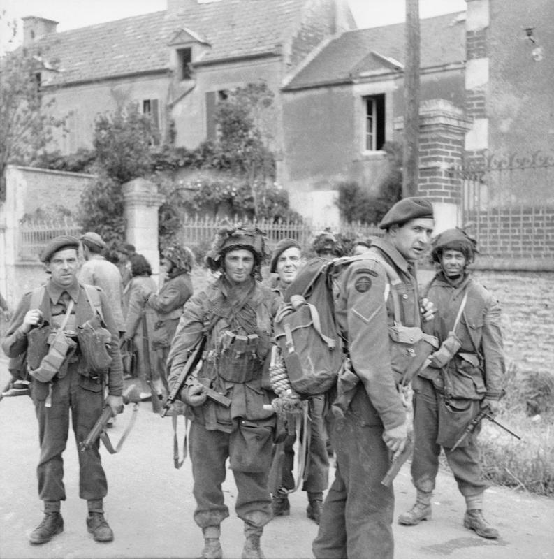 D-day - British Forces during the Invasion of Normandy 6 June 1944 Commandos of No. 4 Commando, 1st Special Service Brigade, and troops of 6th Airborne Division in Bénouville after the link-up between the two forces, 6 June 1944.